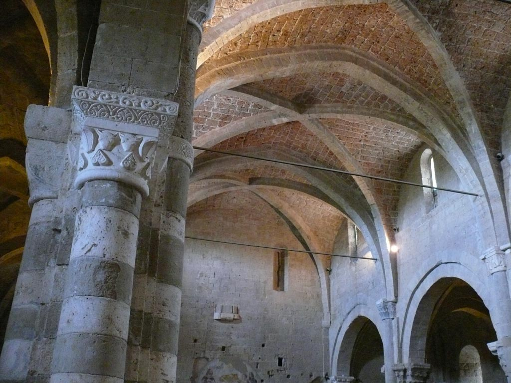 Sovana, Cathedral